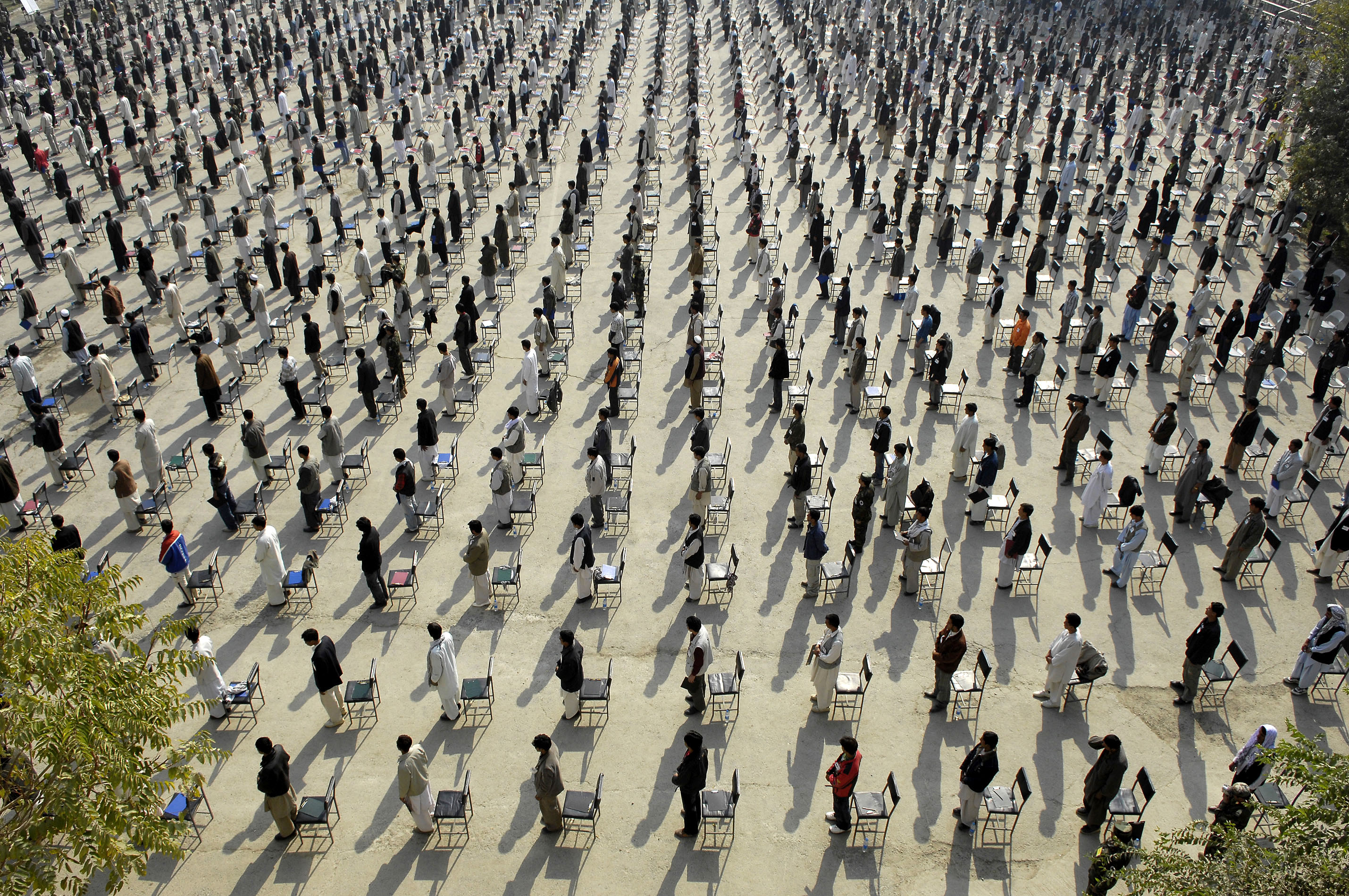 Airmen, Soldiers help establish military academy More than 1,800 prospective cadets rise for the playing of the Afghan National Anthem before the start of the Afghan College Entrance Exam for the Afghan National Army Academy, Kabul, Afghanistan, Oct. 25. The prospective cadets here are hoping to be one of the approximately 300 chosen for the new freshman class. The exam makes up 80 percent of their final admissions score. (United States Air Force photo by Staff Sgt. Brian Ferguson)